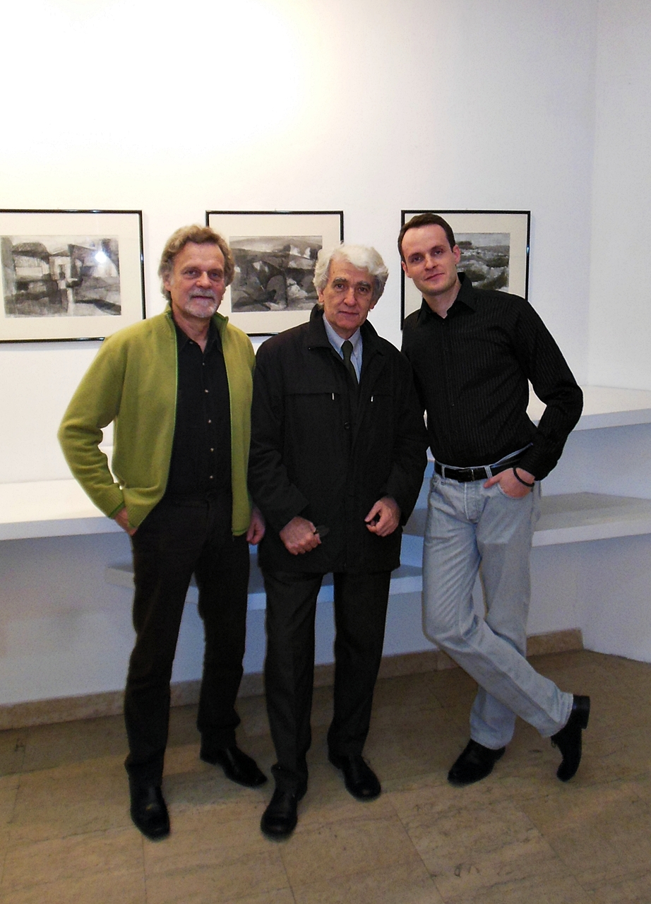 Matija Rajković, Zoran Rajković and prof. Čedomir Vasić, Painter from Serbia